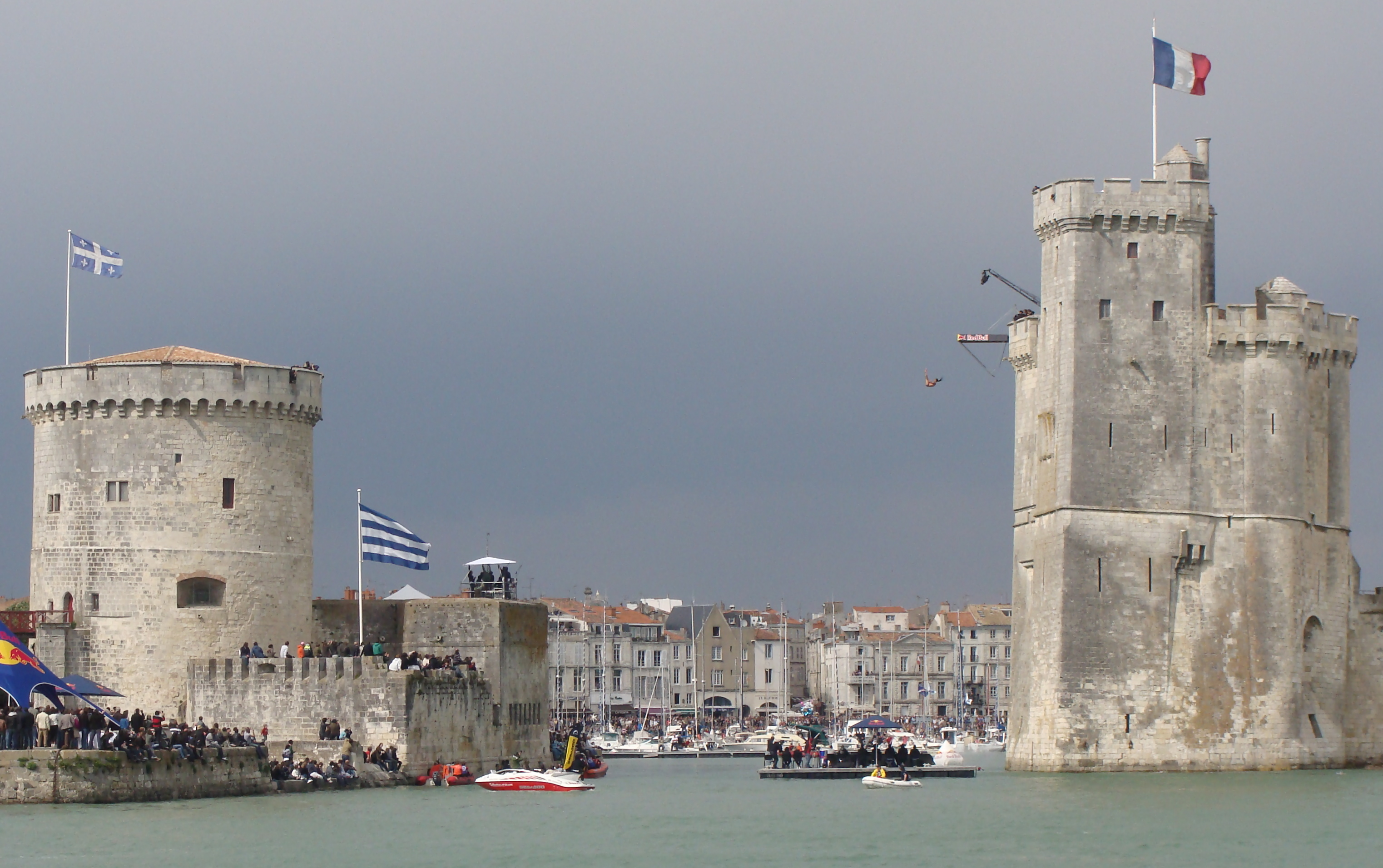 RedBull cliff diving world series championship 2010 in La Rochelle, France